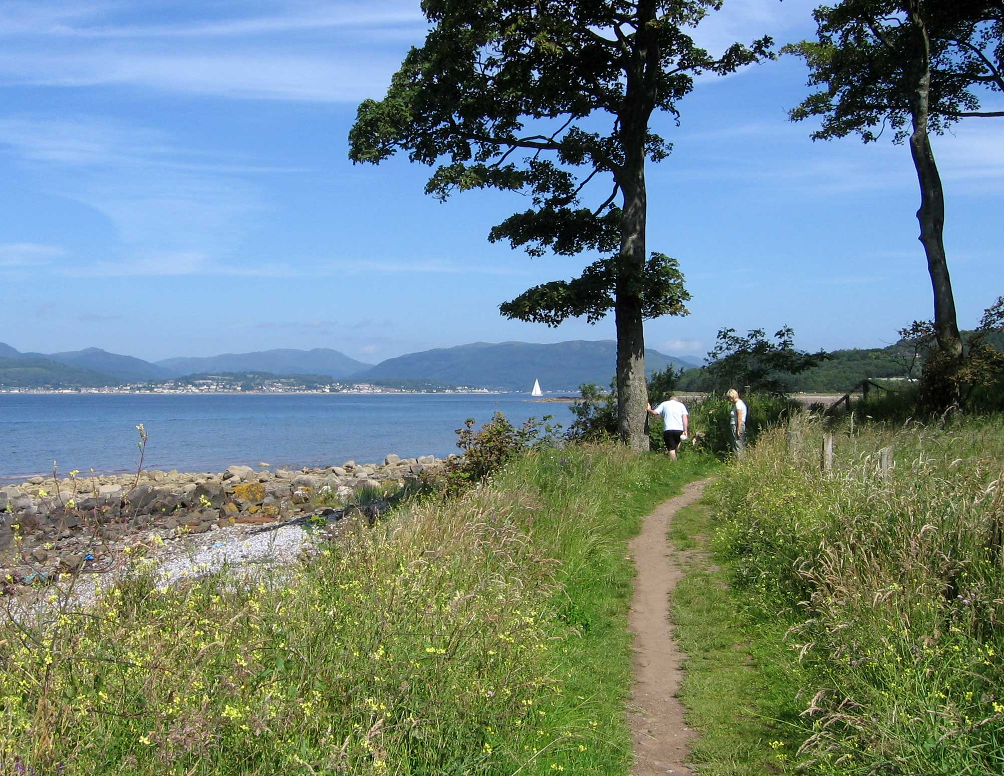 Inverclyde Coastal Path from Inverkip to Lunderston Bay on the Firth of Clyde in Inverclyde, Scotland.